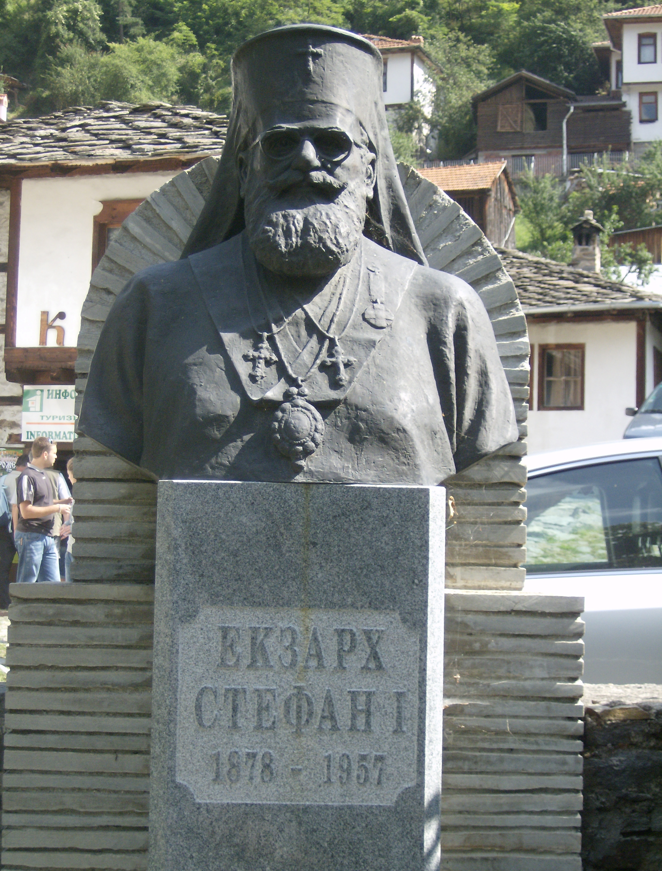 Exarch Stefan I